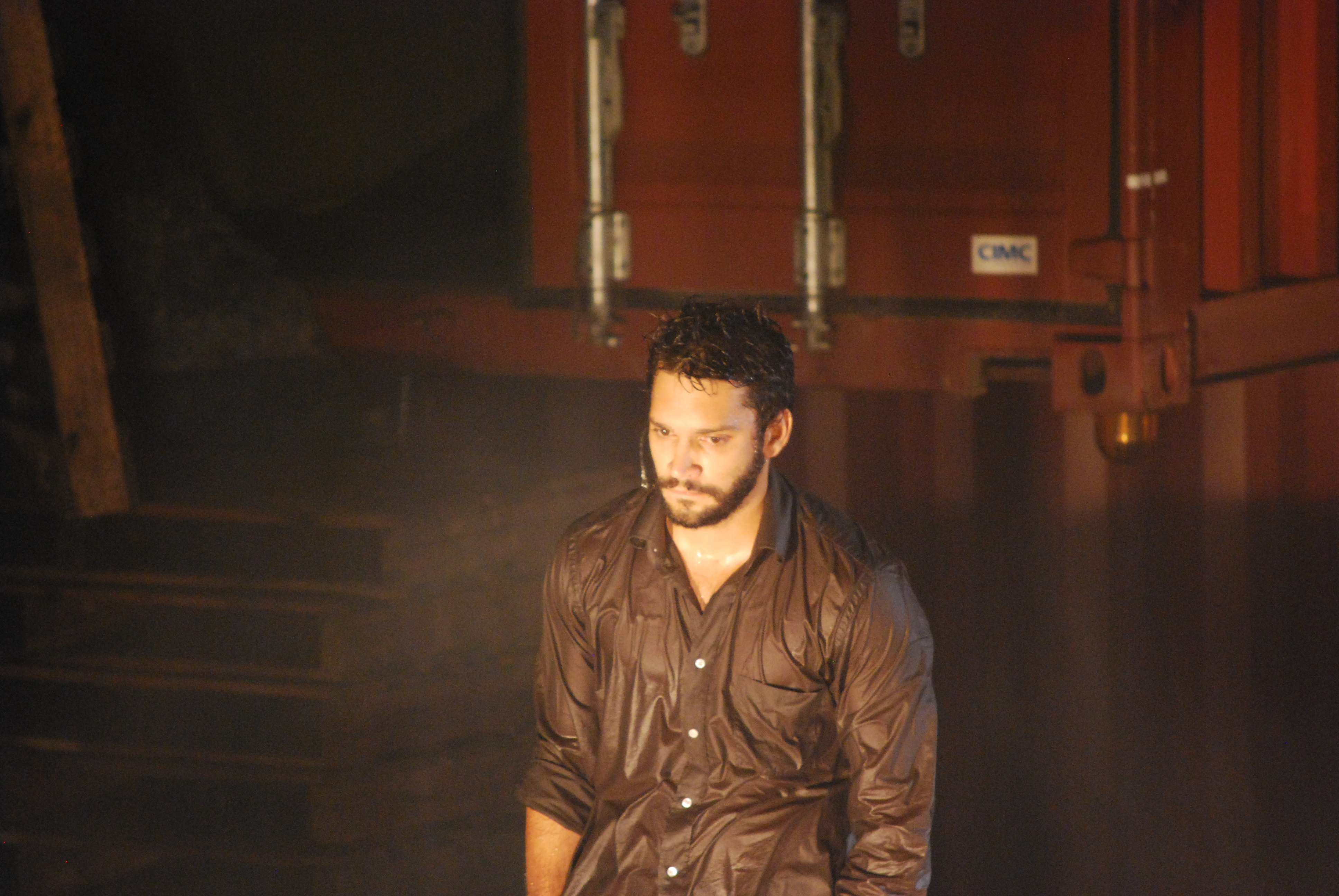 Dans La solitud des Champs de Coton - Bresil